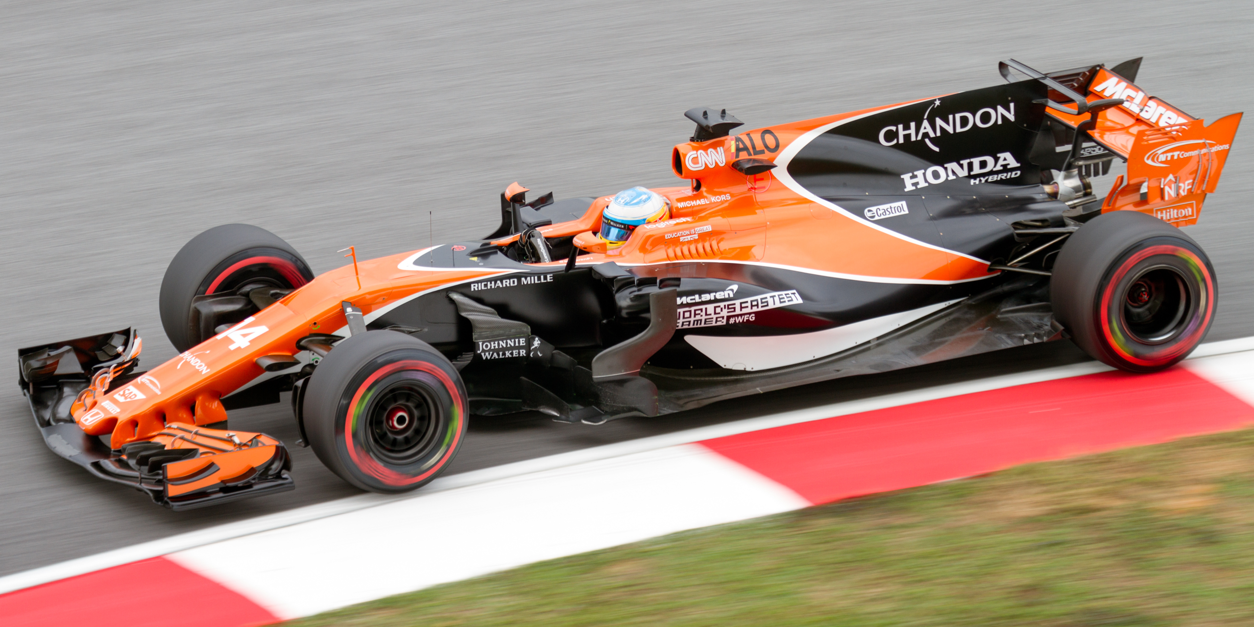 Formula One 2017 Rd.15 Malaysian GP: Fernando Alonso (McLaren)